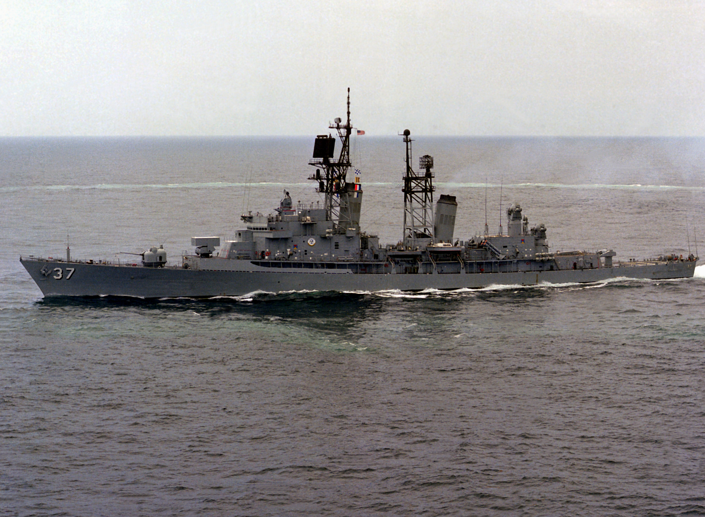 The U.S. Navy guided missile destroyer USS Farragut (DDG-37) underway in the Atlantic Ocean on 2 July 1982.